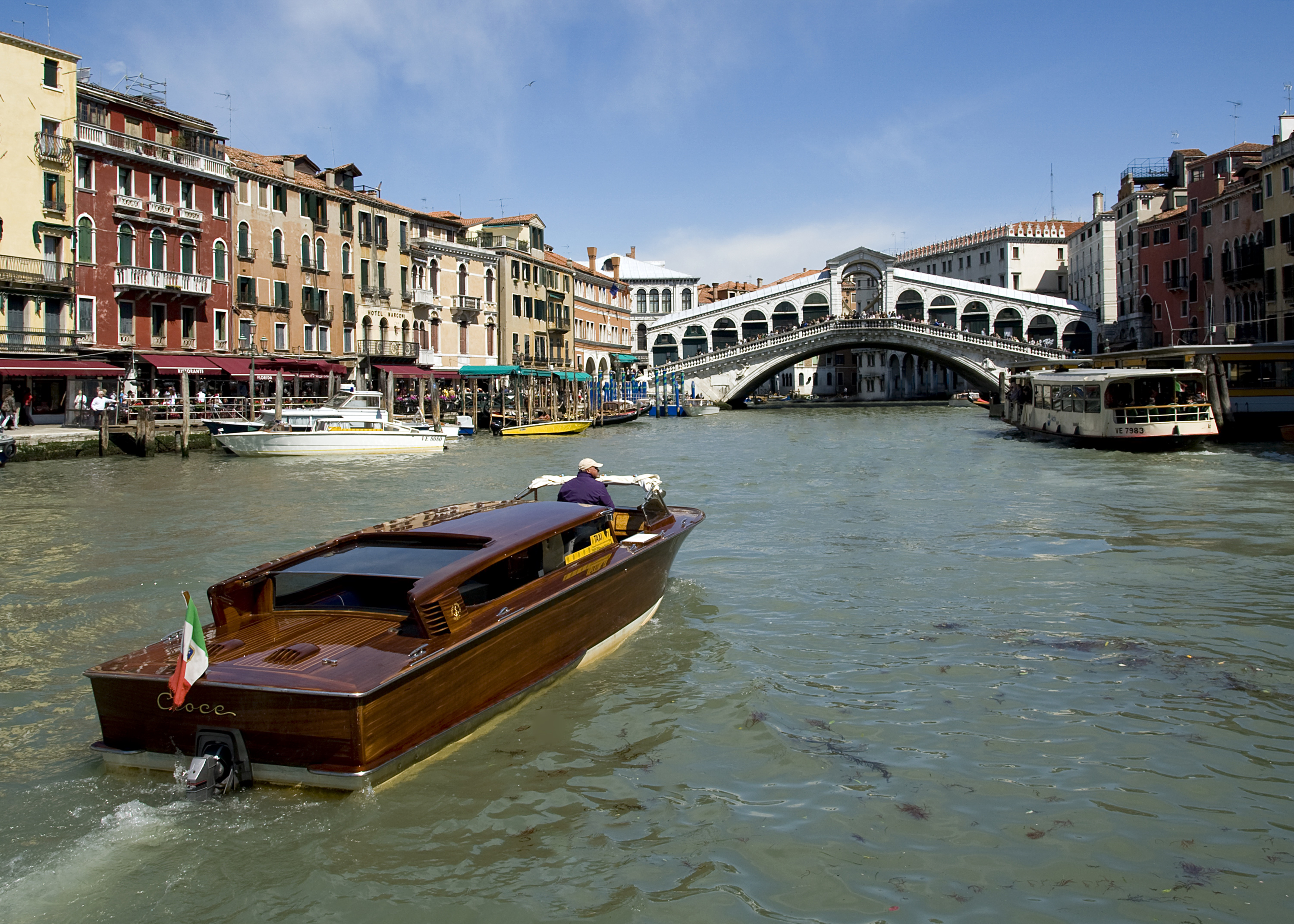 The Rialto Bridge over Venice's Grand Canal.